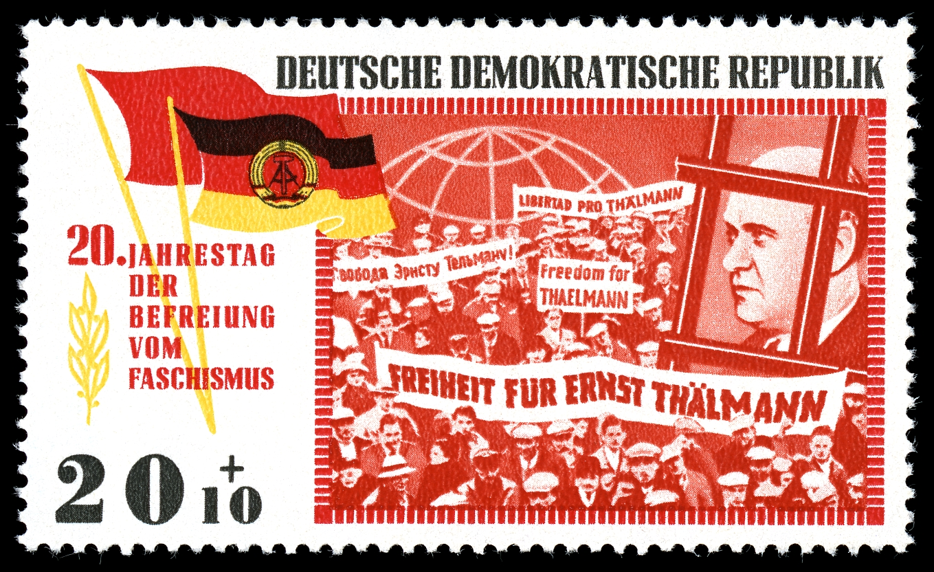 Ausgabepreis: Pfennig First Day of Issue / Erstausgabetag: Auflage: Entwurf: Druckverfahren: Michel-Katalog-Nr: Ländercode-MiNr: Licensing This file is most likely NOT in the public domain. It has been marked for review, and will be deleted in due course if the review does not find it to be in the public domain. This file was previously considered to be in the public domain as a German stamp; it is possible that it is in the public domain for other reasons, in which case a new rationale will be applied as part of the review process. See below for the previous rationale. Previous public domain rationale, no longer applicable This stamp is in the public domain in Germany because it was released by the postal administration of the German Democratic Republic or the Soviet occupation zone (Deutschen Post der DDR) whose legal successor is the Federal Republic of Germany. Thus it is an official work according to German copyright law (§ 5 Abs. 1 UrhG).